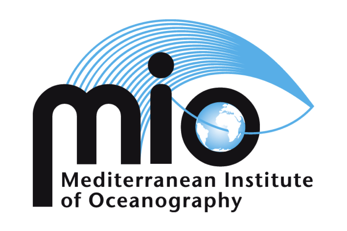 MIO Logo